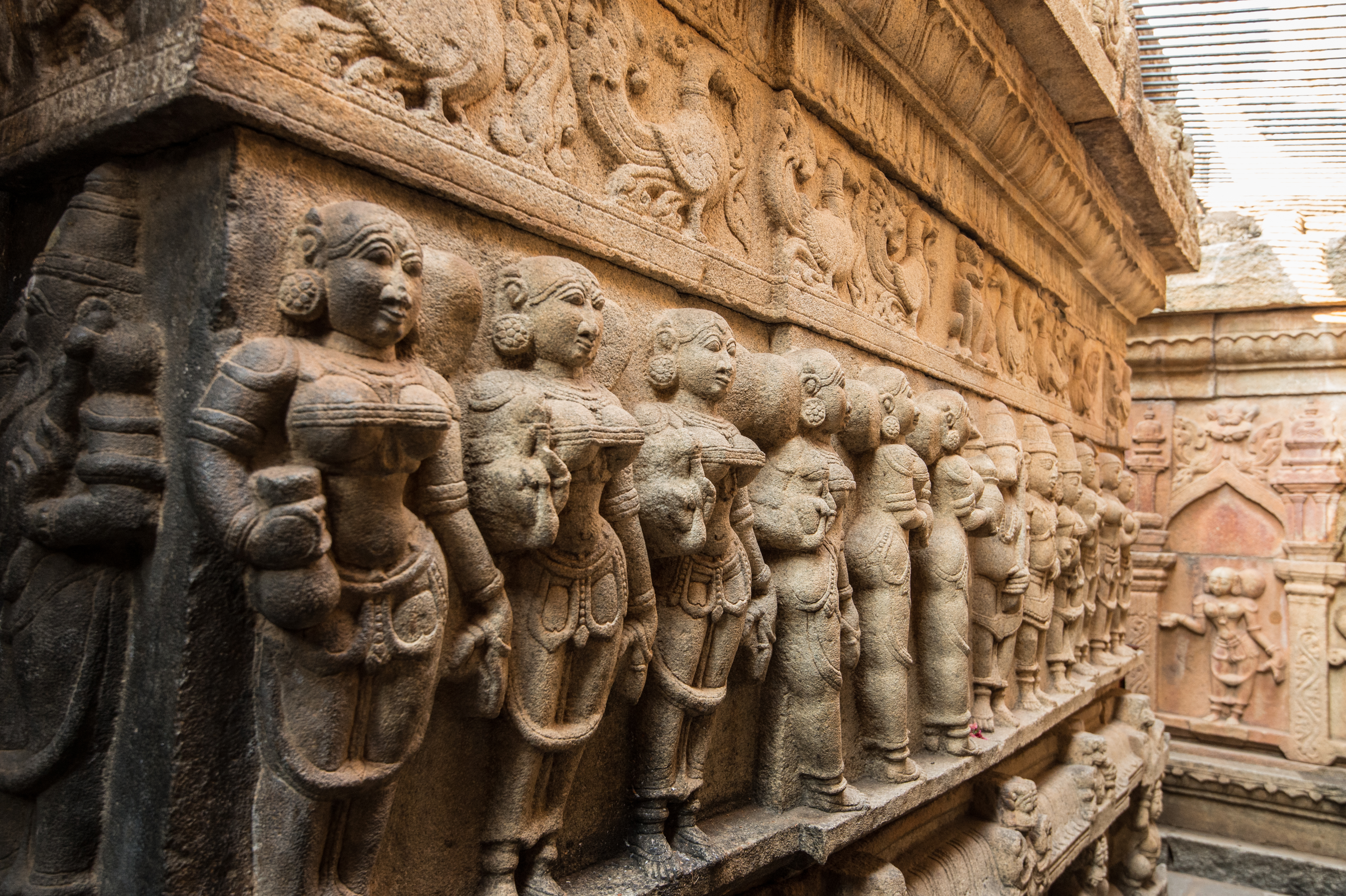 Hoysala Temples